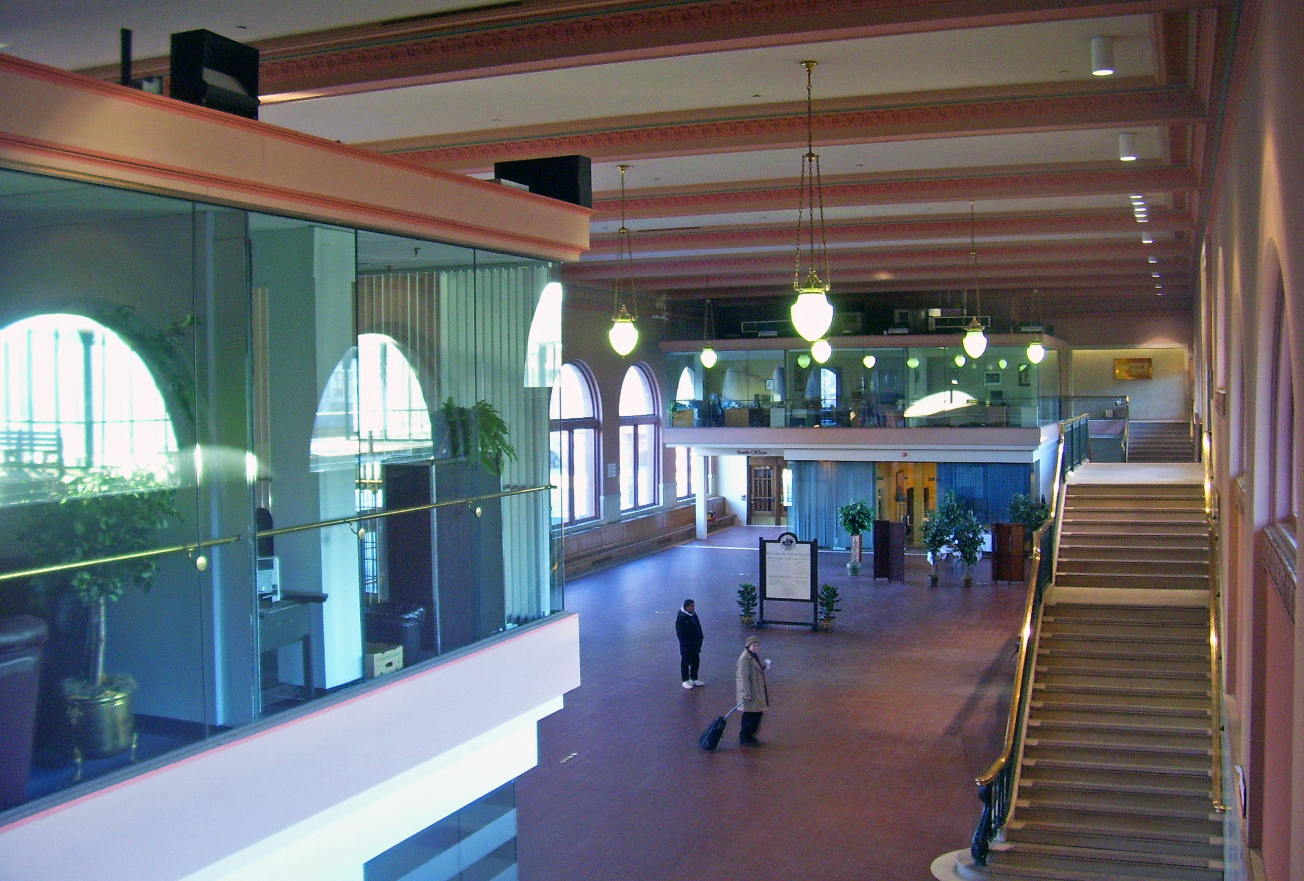 Interior of Hartford Union Station, Hartford, CT, USA